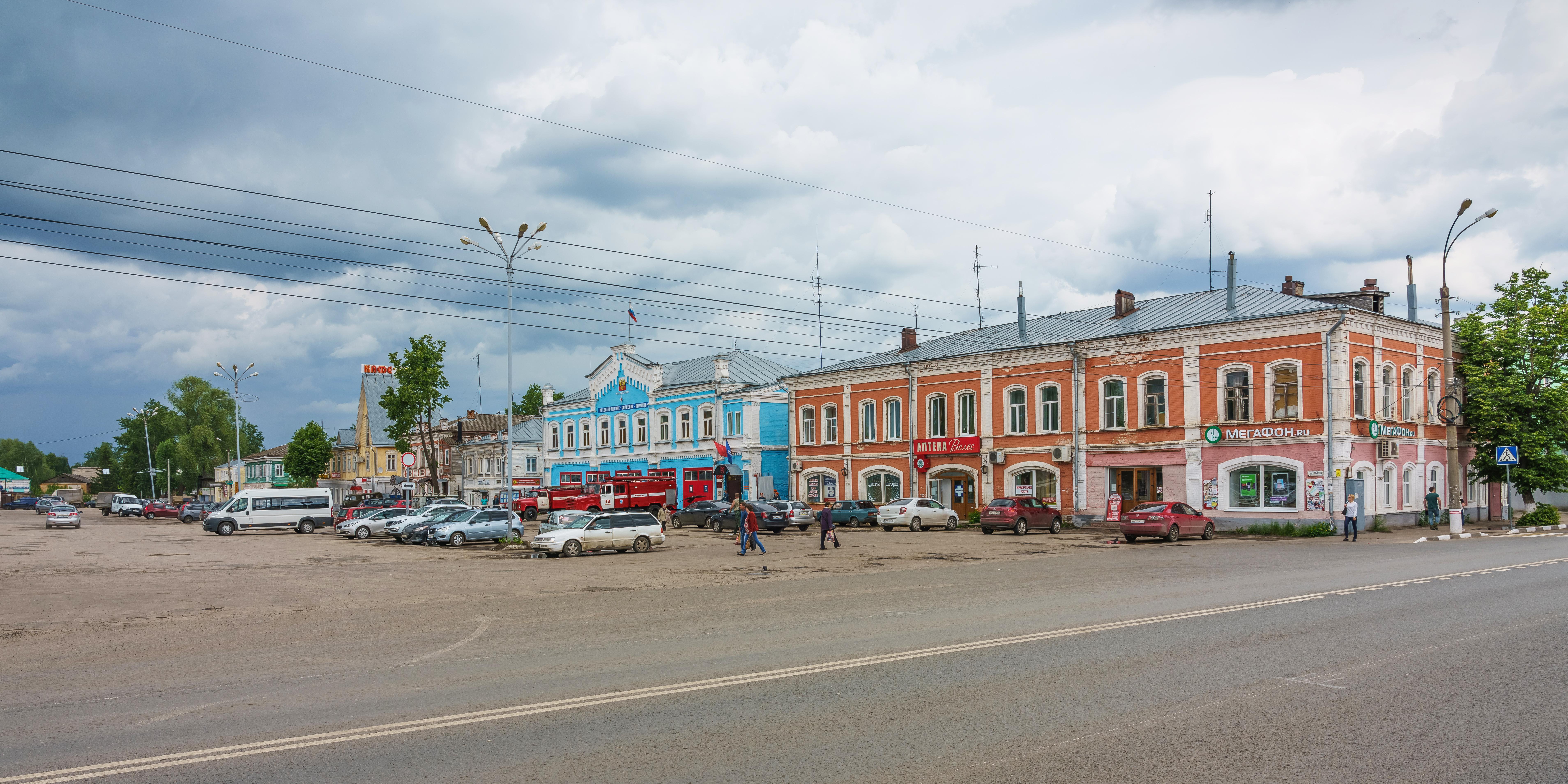 Cathedral Square in Vyazniki, Vladimir Oblast, Russia